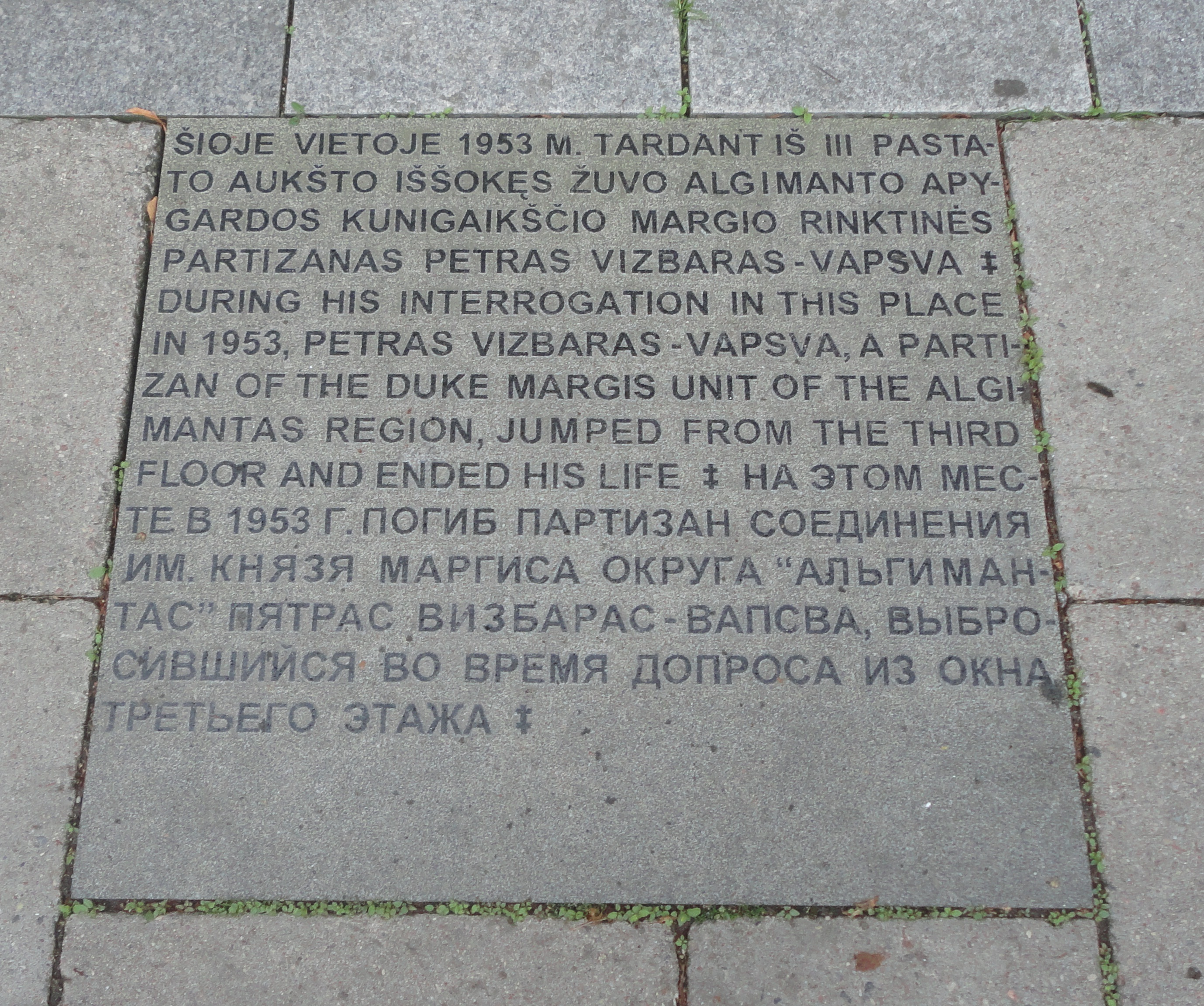 Museum of Gonocide victims, Vilnius, Lithuania.